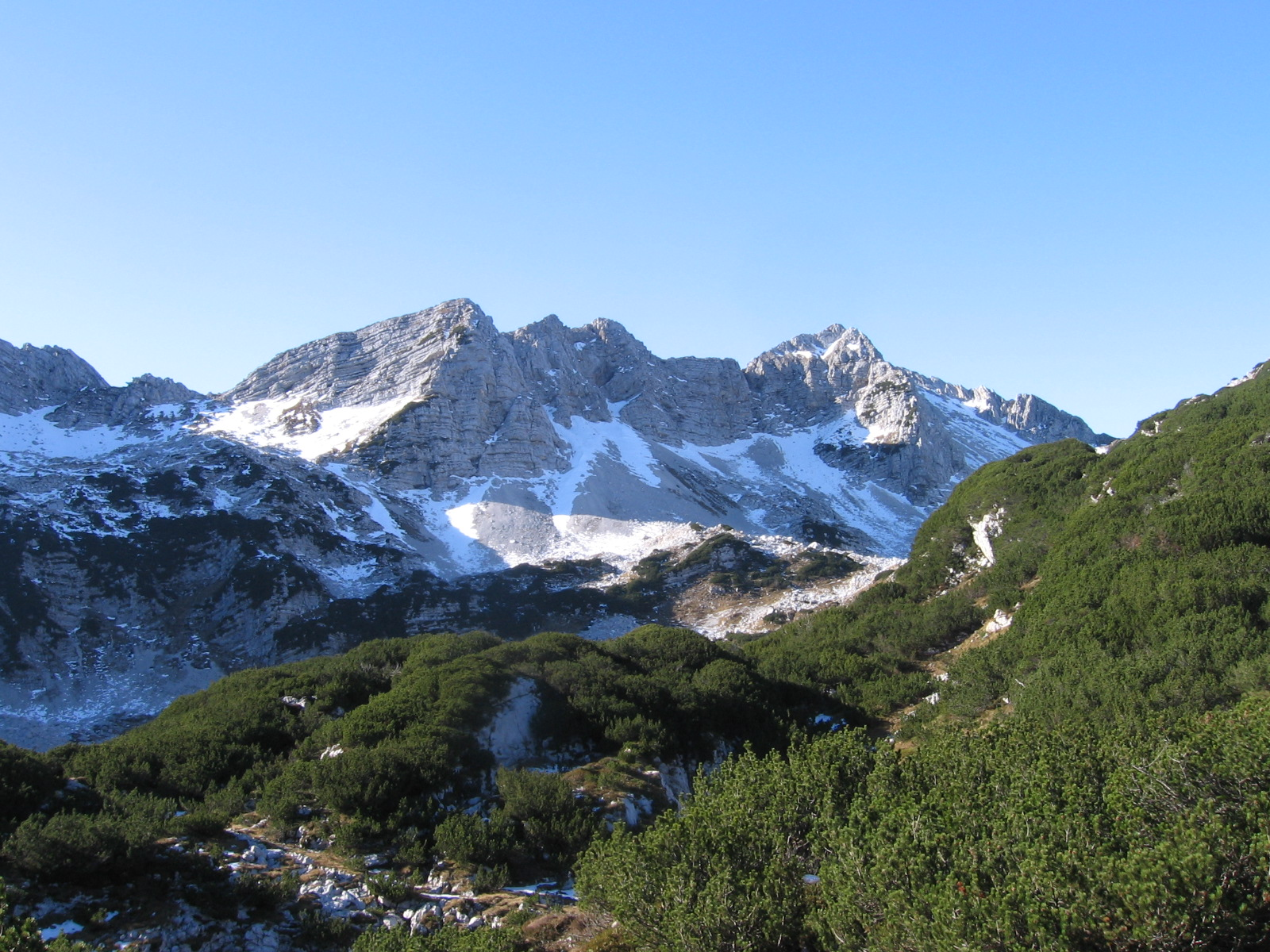 Podrta gora (6,761 ft) from southeast, above Komna plateau (meadow Planina Za Migovcem), Julian Alps, Slovenia.